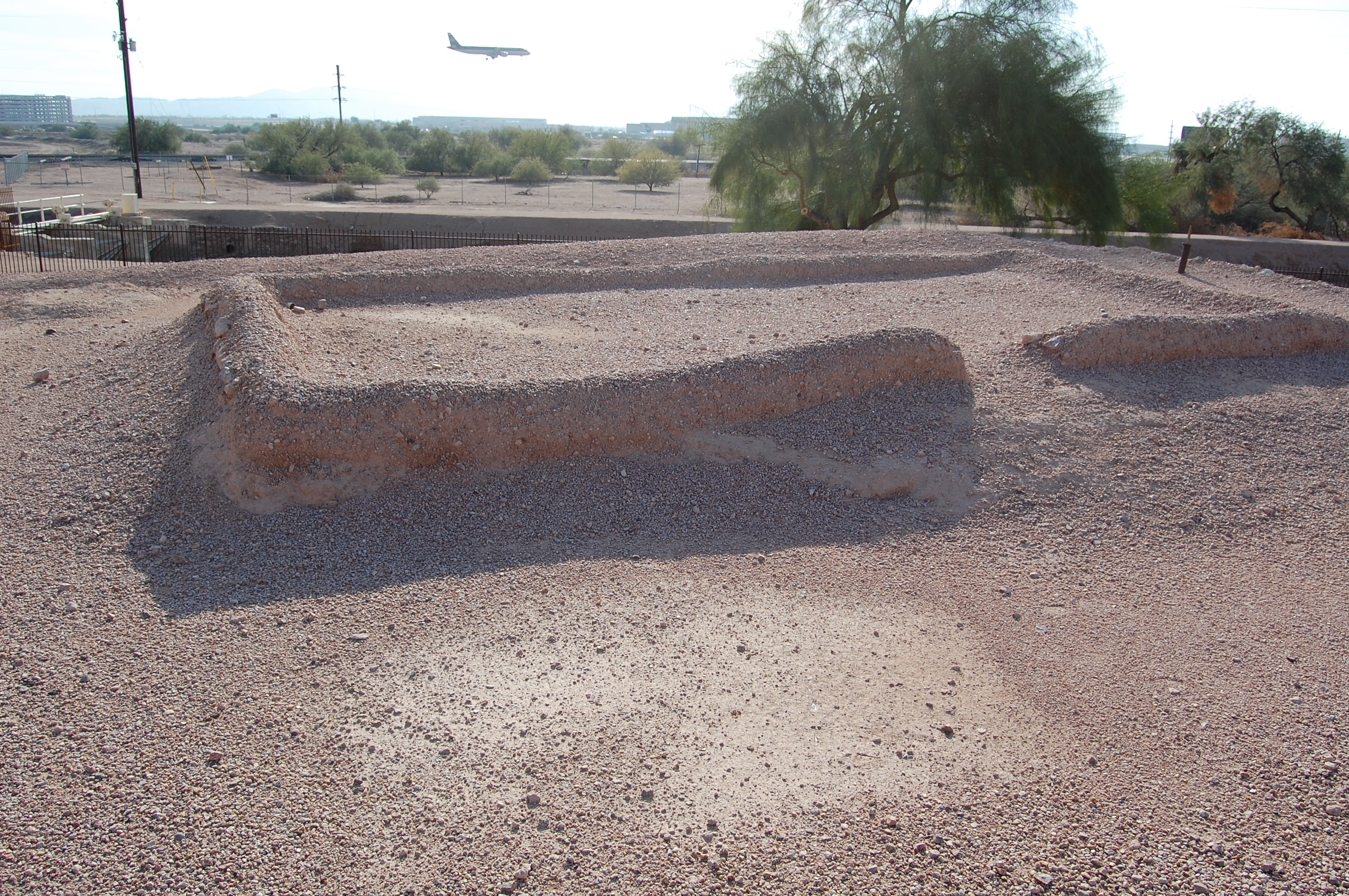 Ruins of a building at Pueblo Grande archaeological site in Phoenix, Arizona. Note the plane landing at Sky Harbor International Airport just behind the dig site.